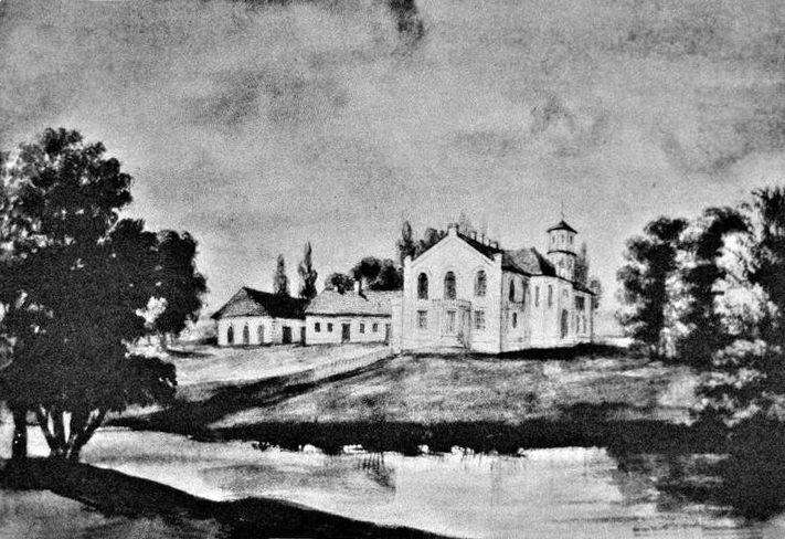 Palace in Derazhya by Napoleon Orda